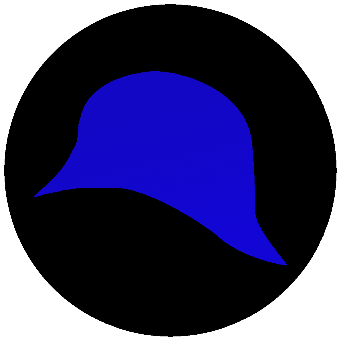 US Army 93rd Infantry Division Shoulder Sleeve Insignia